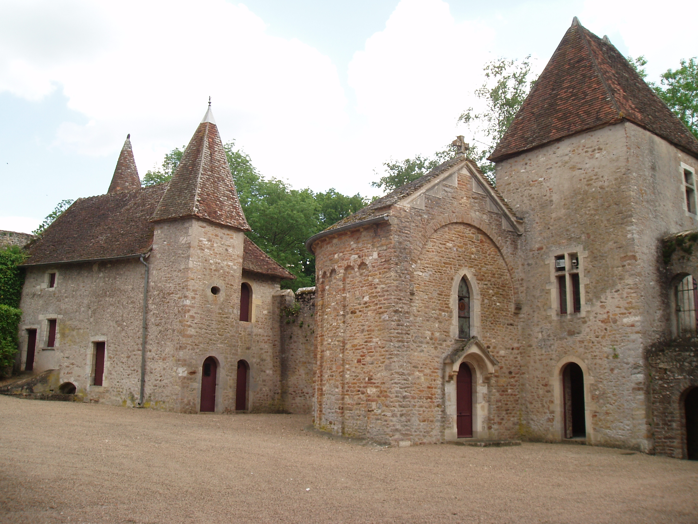 La Chapelle de Bragny Castle : Medieval Part